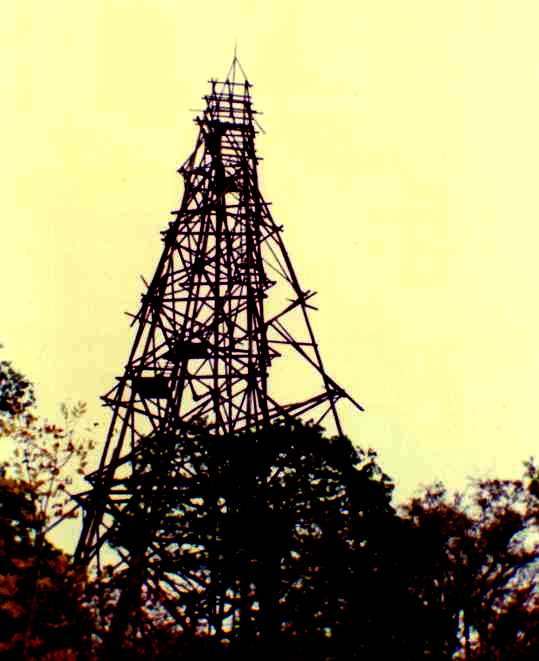 Trigonometrischer Punkt in der Hainleite südwestlich Oldislebens oberhalb der Sachsenburgen (Kyffhäuserkreis) Aufgenommen 1990, kurz vor seiner Zerstörung. war der letzte Turm seiner Sorte